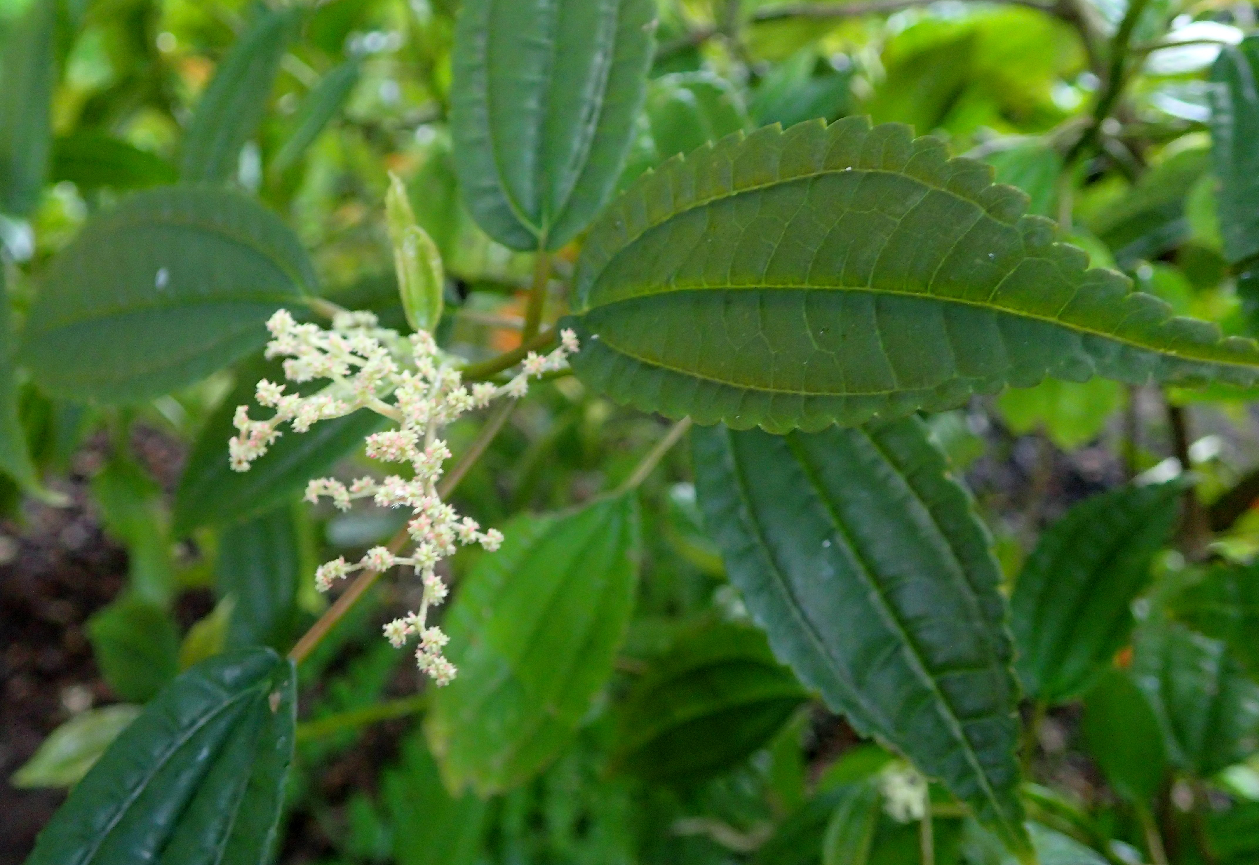 Pilea grandis at the New York Botanical Garden